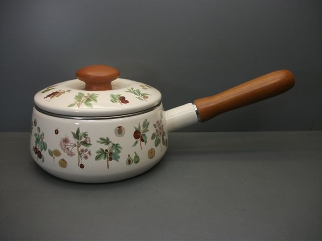 Эмалированный ковш Термосол Финланд